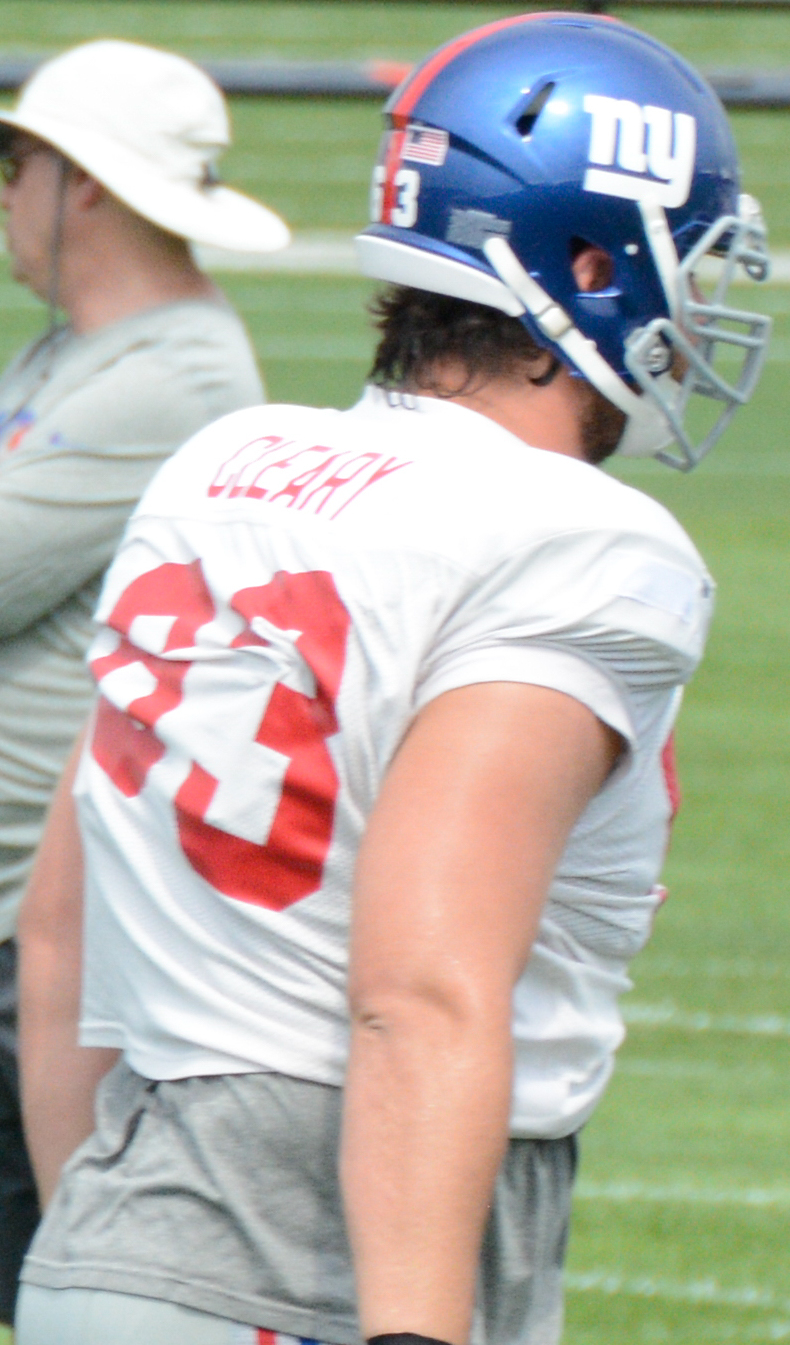 New York Giants training camp